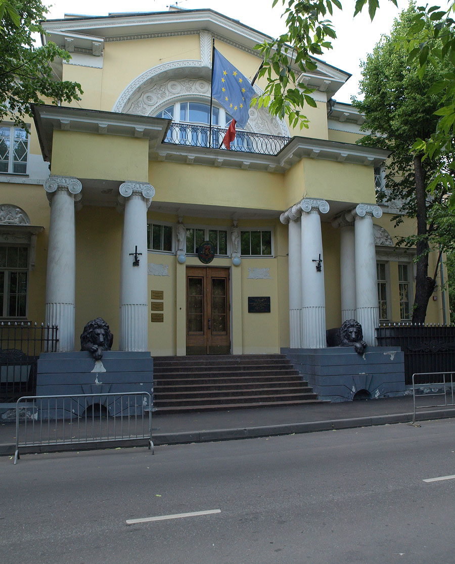 Embassy of Belgium in Moscow (Khlebny Lane, 15). Built in 1909-1910 as Gribov house by Boris Velikovsky, Alexey Milyukov and Leonid Vesnin.